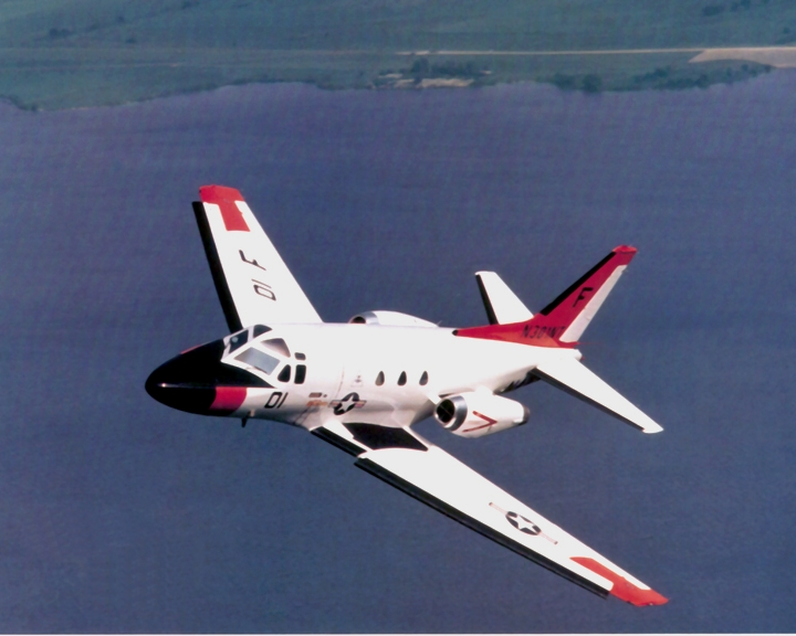 A U.S. Navy Rockwell International T-39N "Sabreliner" (BuNo 165509, c/n 282-009, c/r N301NT) in flight.